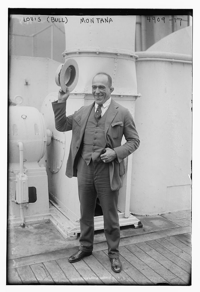 Bull Montana in 1919 aboard a ship